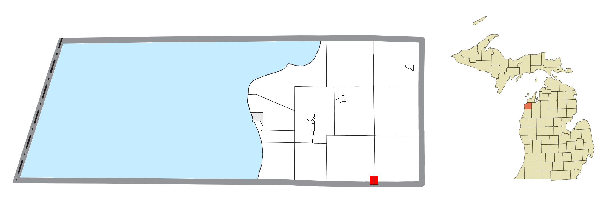 Thompsonville, MI